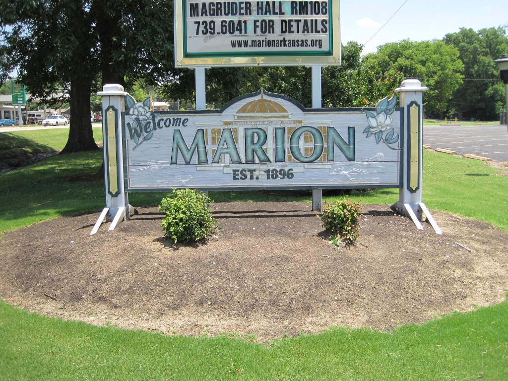 Marion, Arkansas. Welcome to Marion sign.